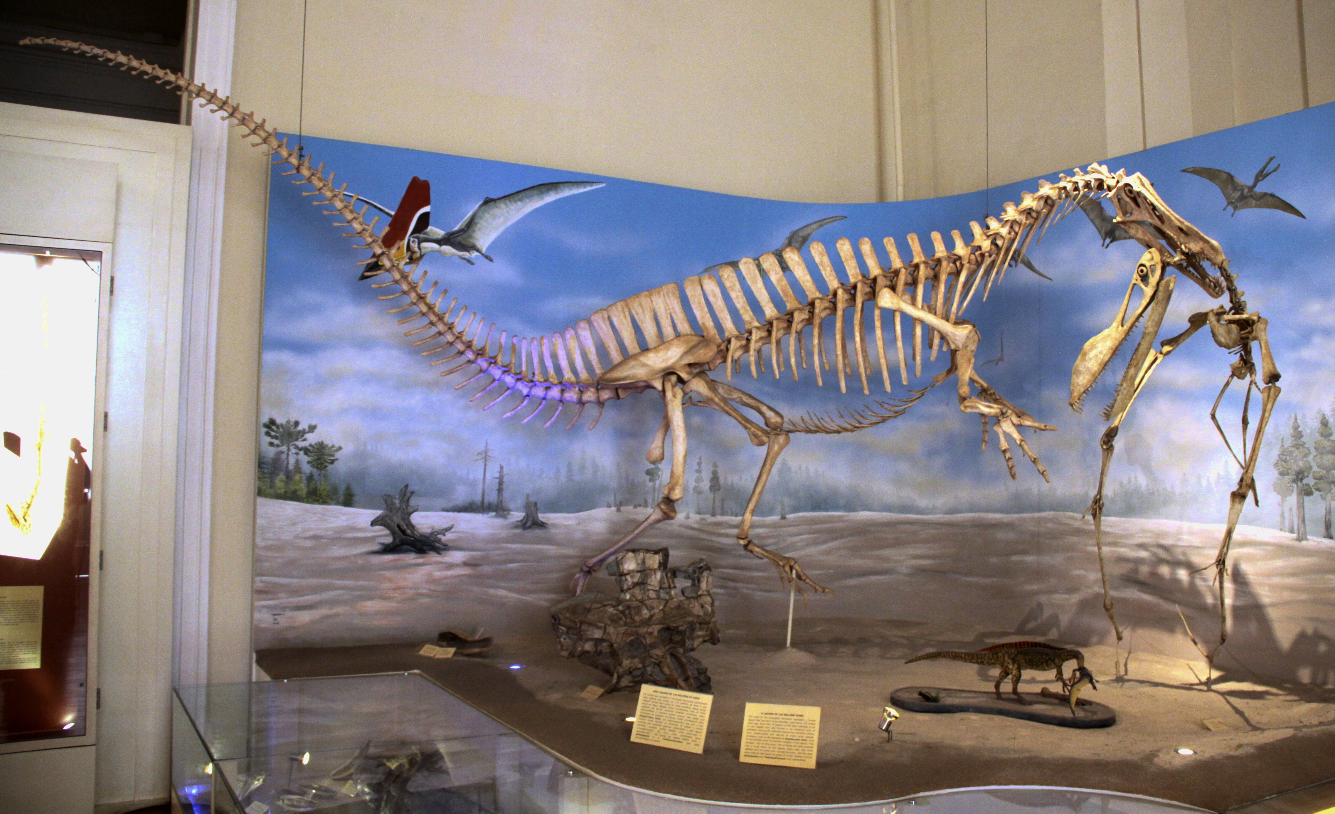 Museu National, Rio de Janeiro